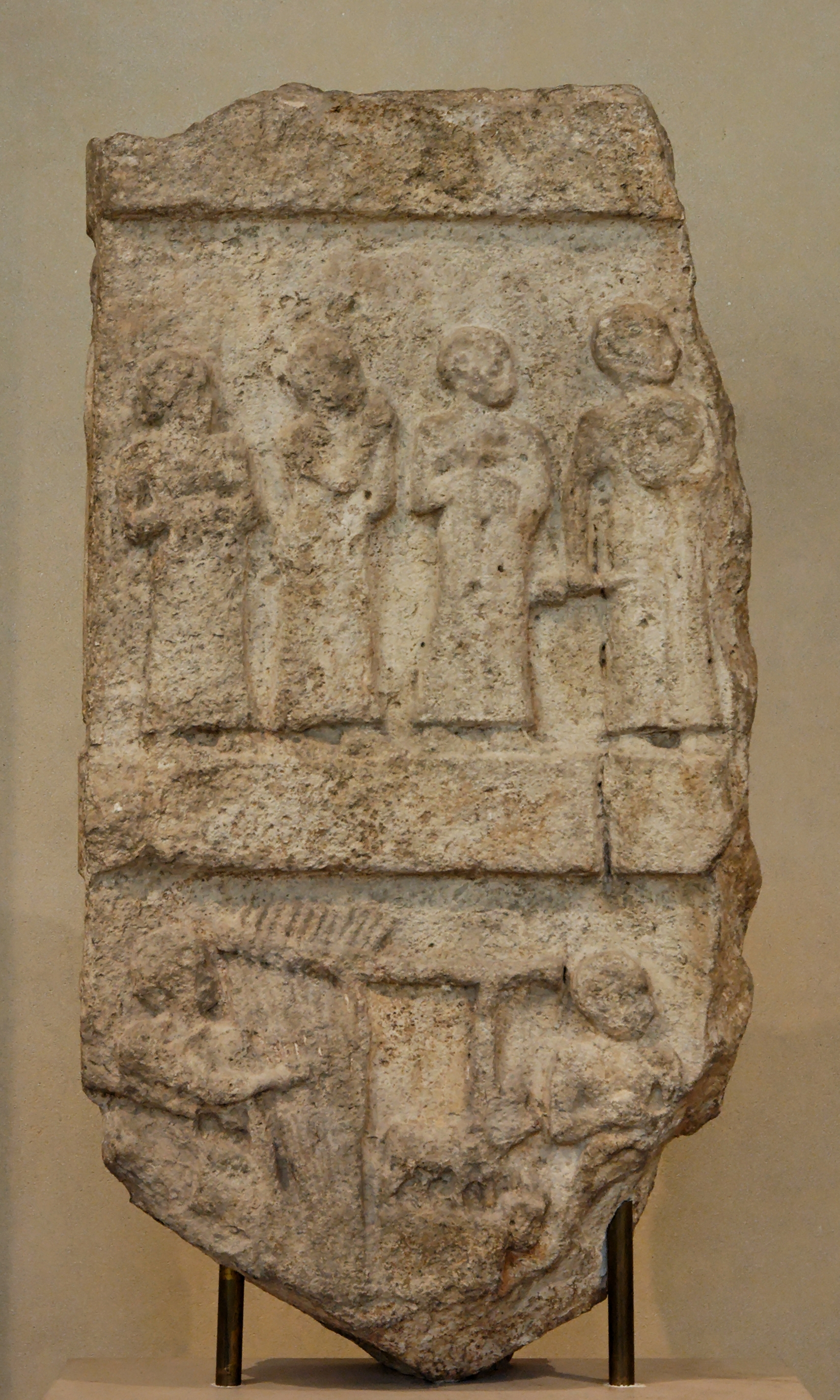 Stele representing a bull-lyre player and singer on the lower register and a priest with a plumb-bob on the upper register. Limestone, period of Gudea, ruler of Lagash, ca. 2120 BC, found in Telloh (ancient city of Girsu).